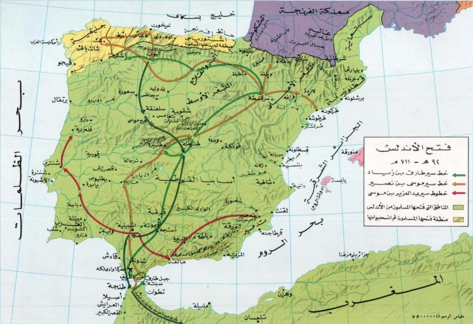 Map showing the advancement of Muslim Conquests from the Maghreb through the Andalus.